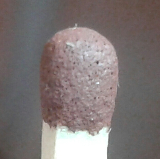 Головка спички в увеличении